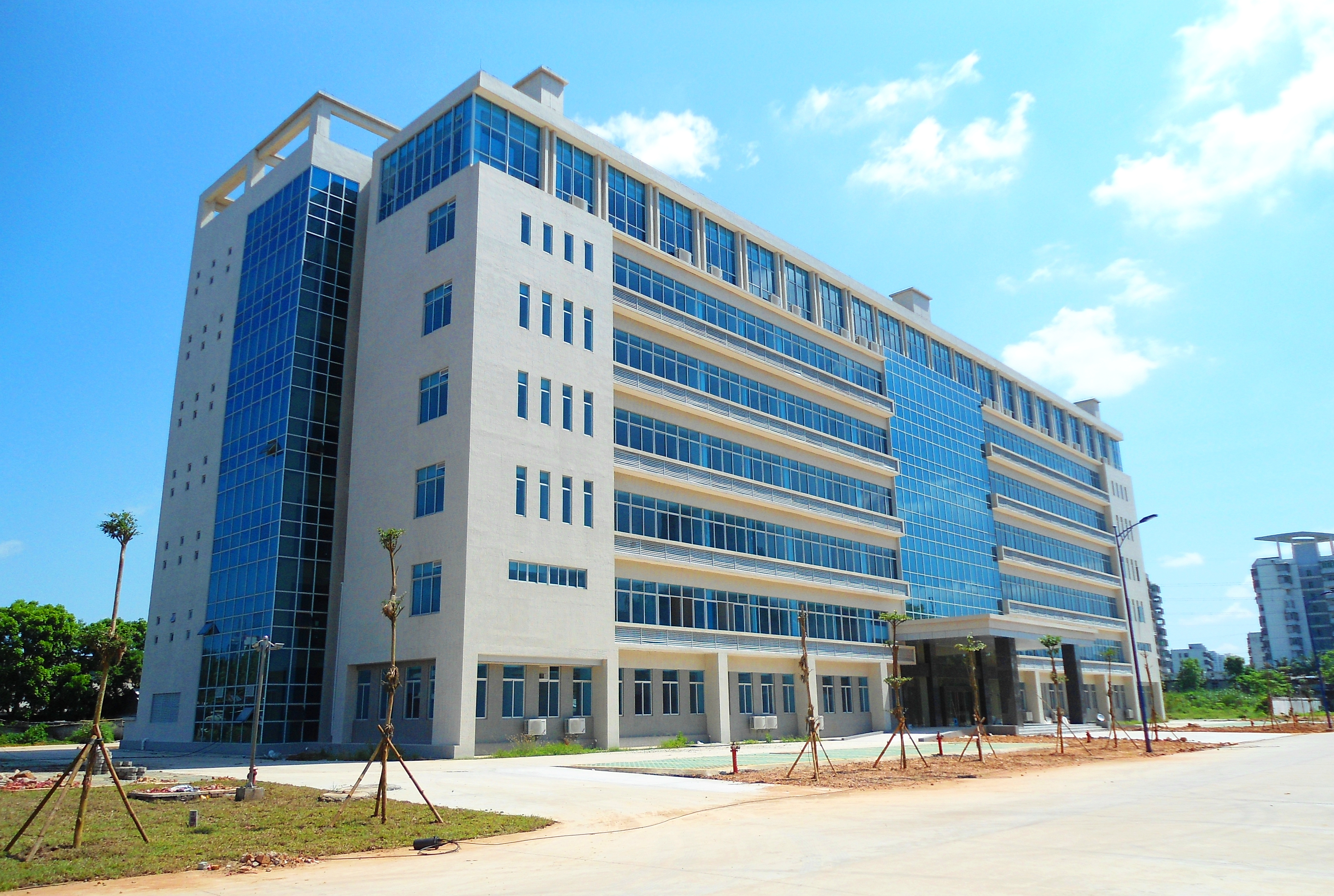 Chinese Academy of Tropical Agricultural Sciences (CATAS), Haikou City, Hainan Province, China.